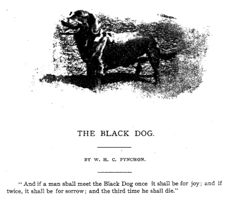 The Black Dog of the Hanging Hills (Meriden, Connecticut)